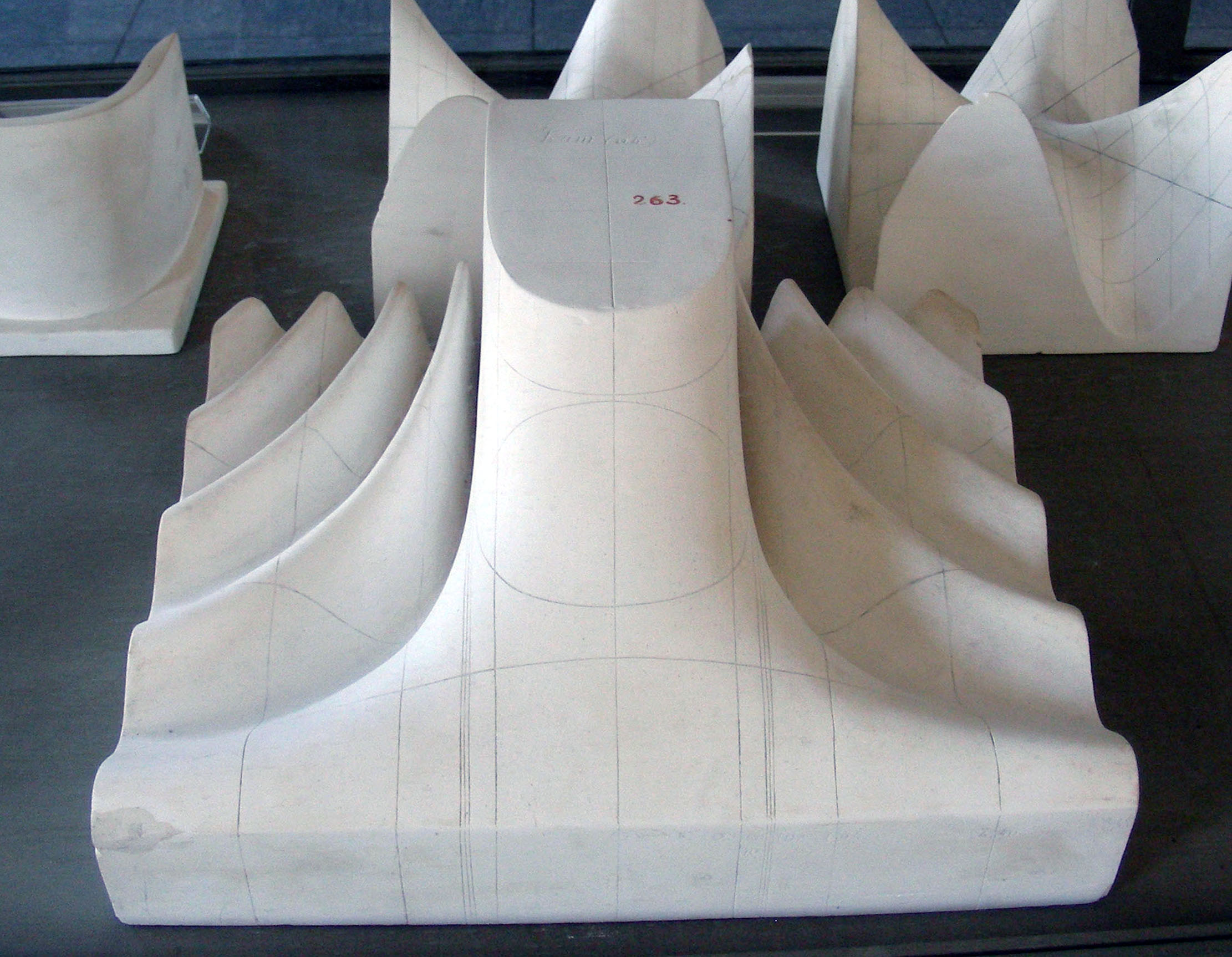 Model in the collection of mathematical models and instruments, Georg-August-Universität Göttingen Göttingen. see also for more information on the models